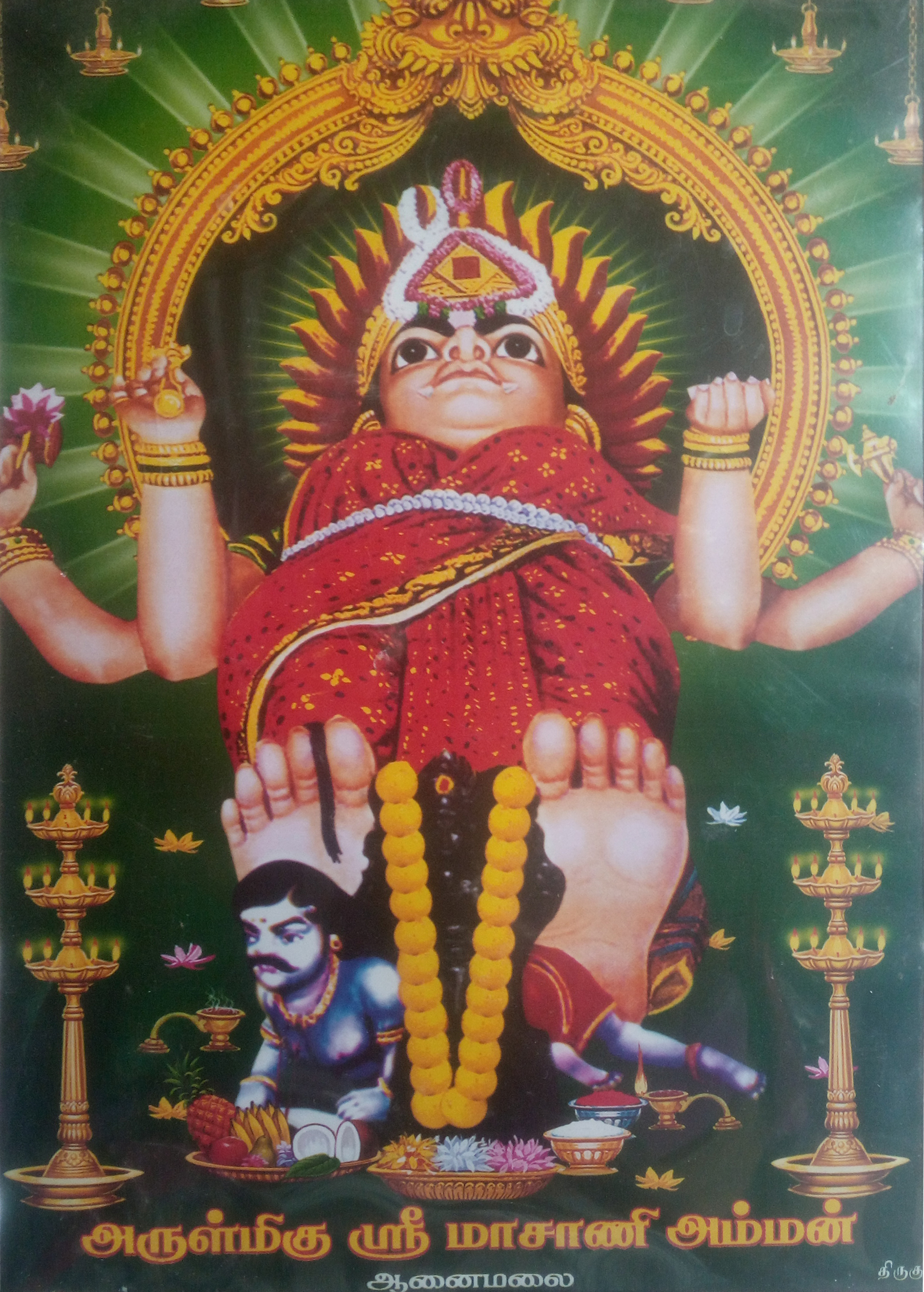 This is a photo of Masani Amman